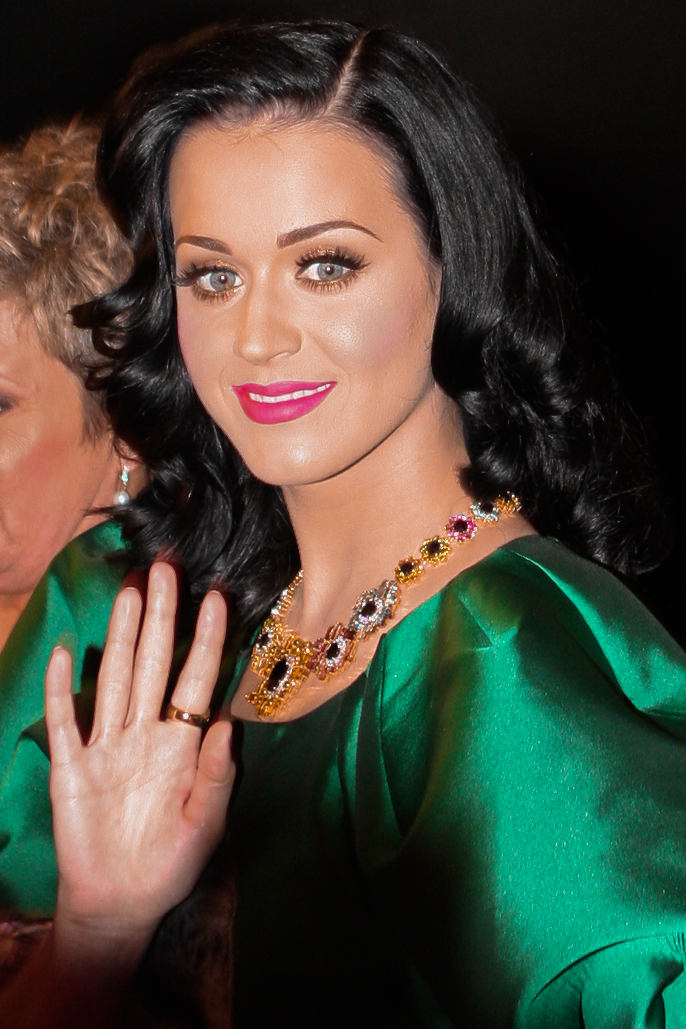 American pop singer-songwriter Katy Perry at TV Week Logie Awards 2011 in Melbourne, Victoria, Australia (May 1, 2011).